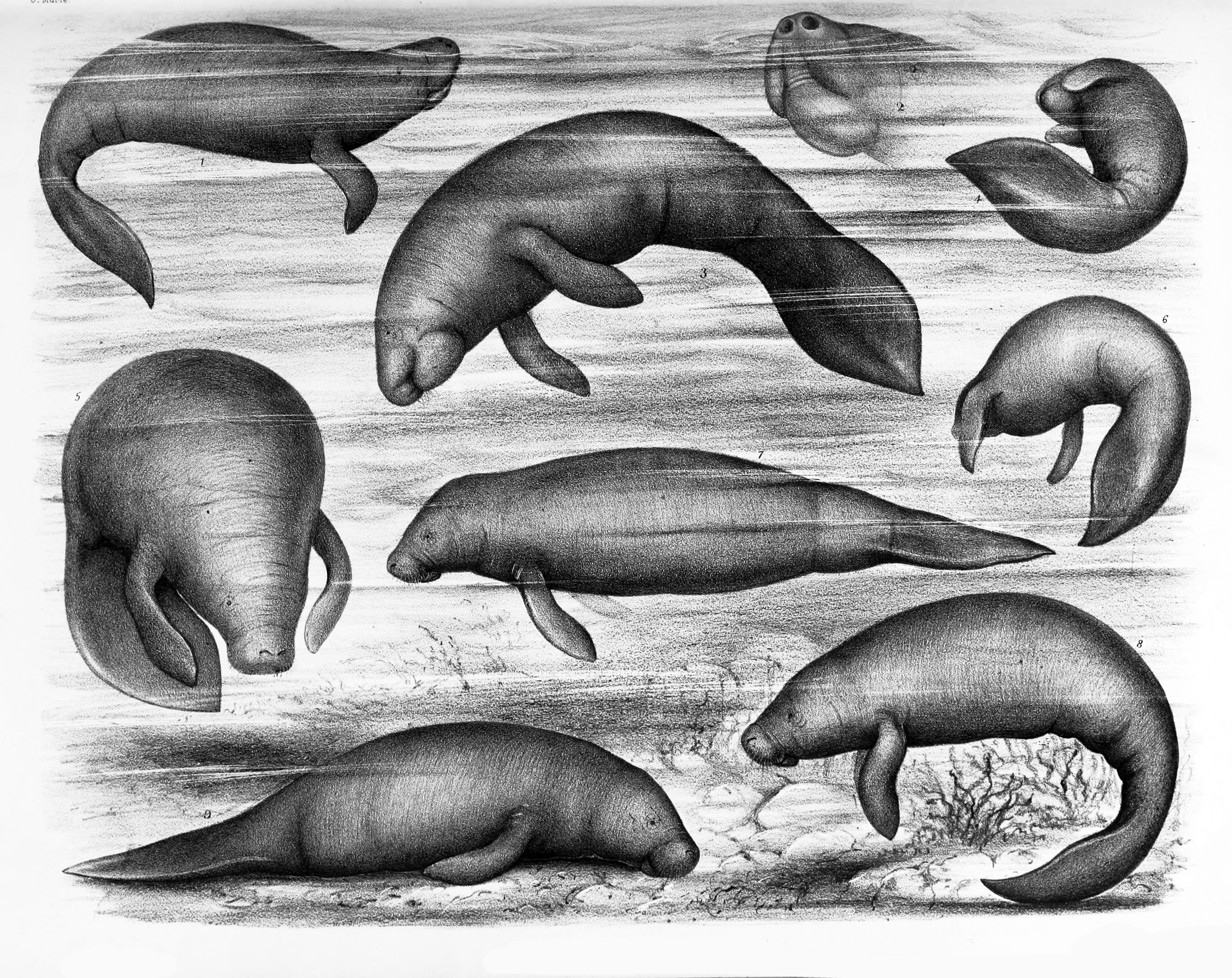 attitudes Manatee